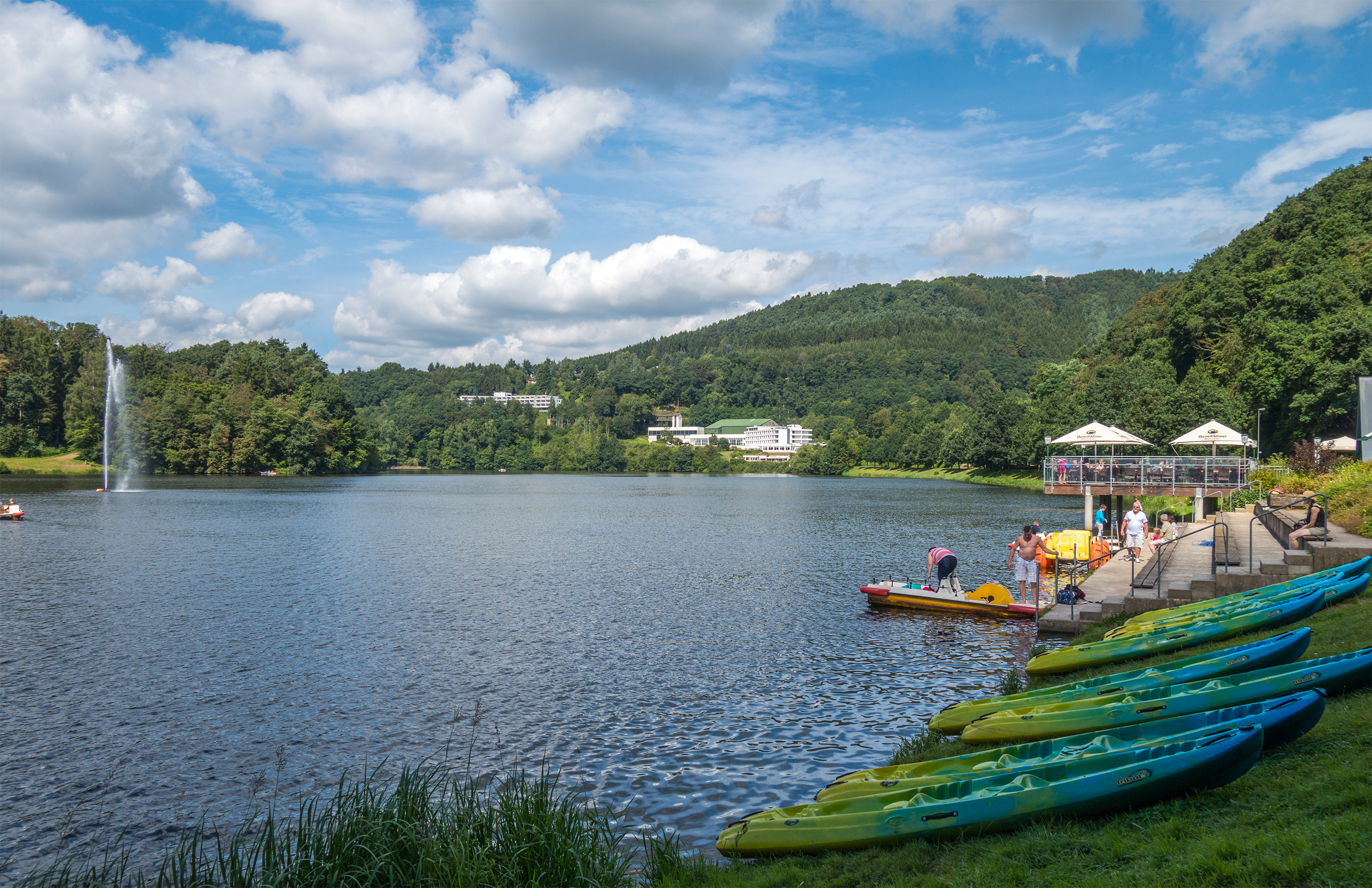 View on the barrier lake Bitburg at the landing stage of Biersdorf